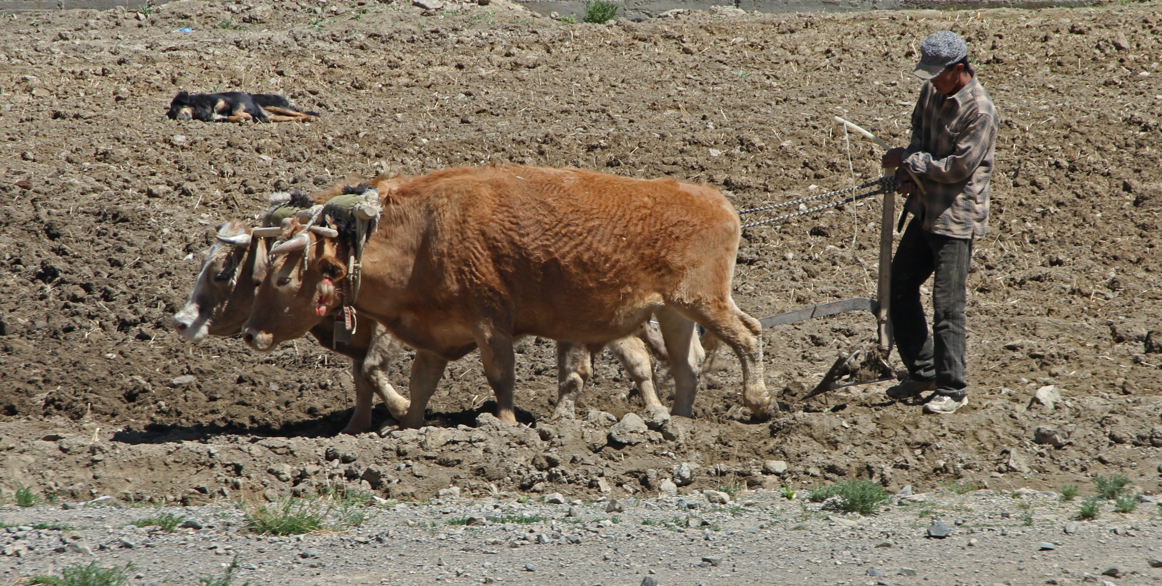 Agriculture in Xigazê prefecture in Tibet